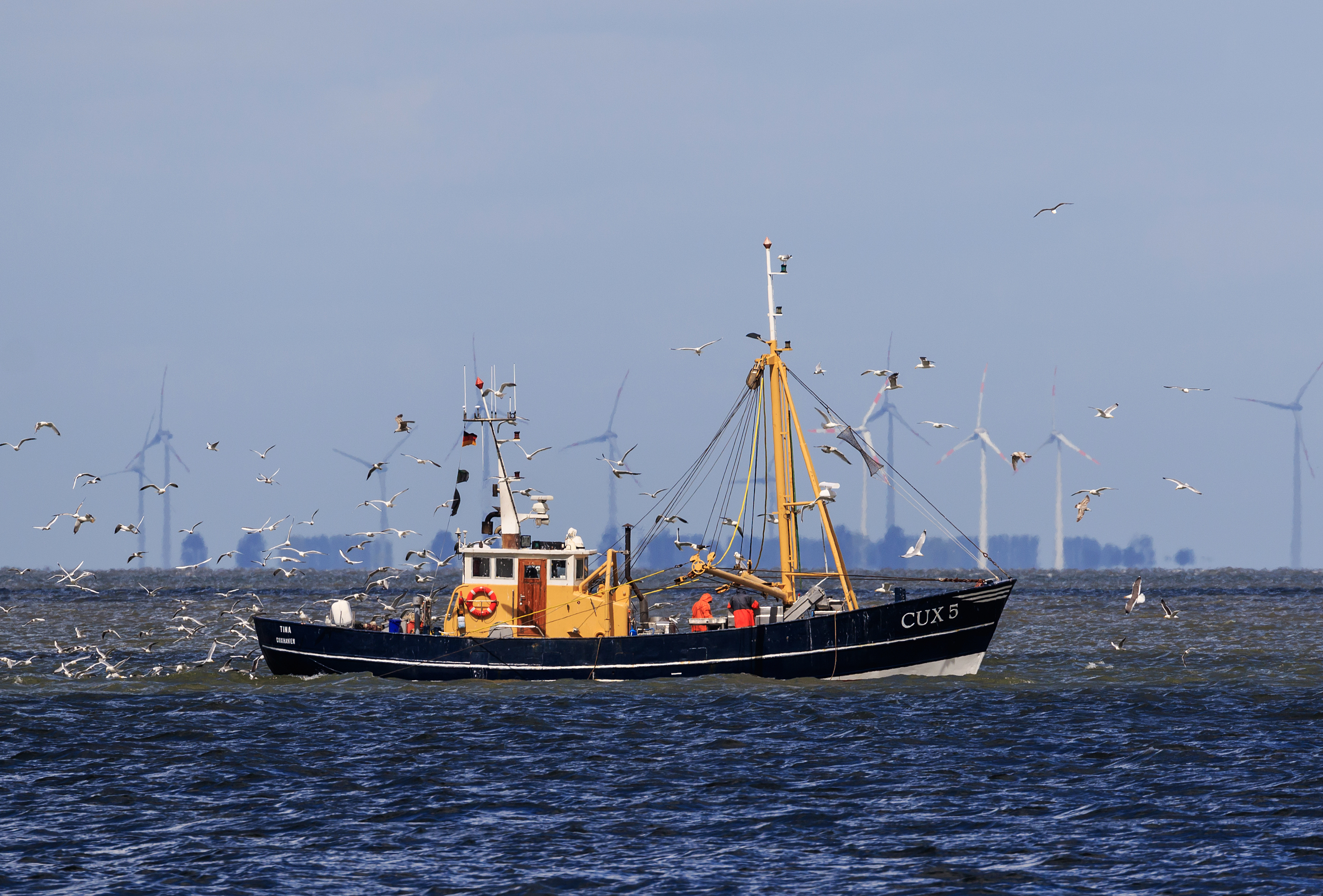 Fishing boat in Outer Elbe / Wadden Sea at Cuxhaven, Germany